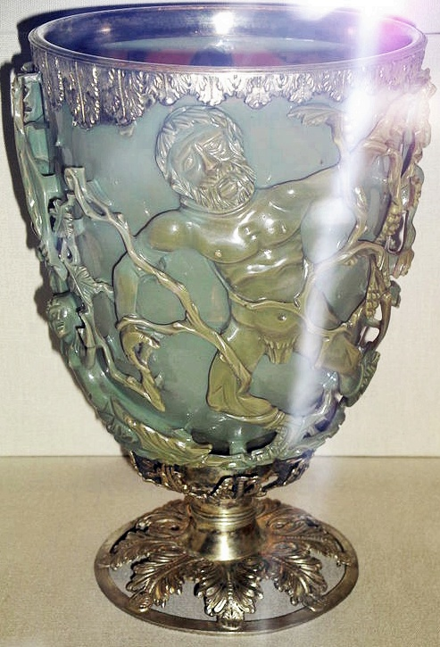 Lycurgus Cup, with flash - cropped, edited